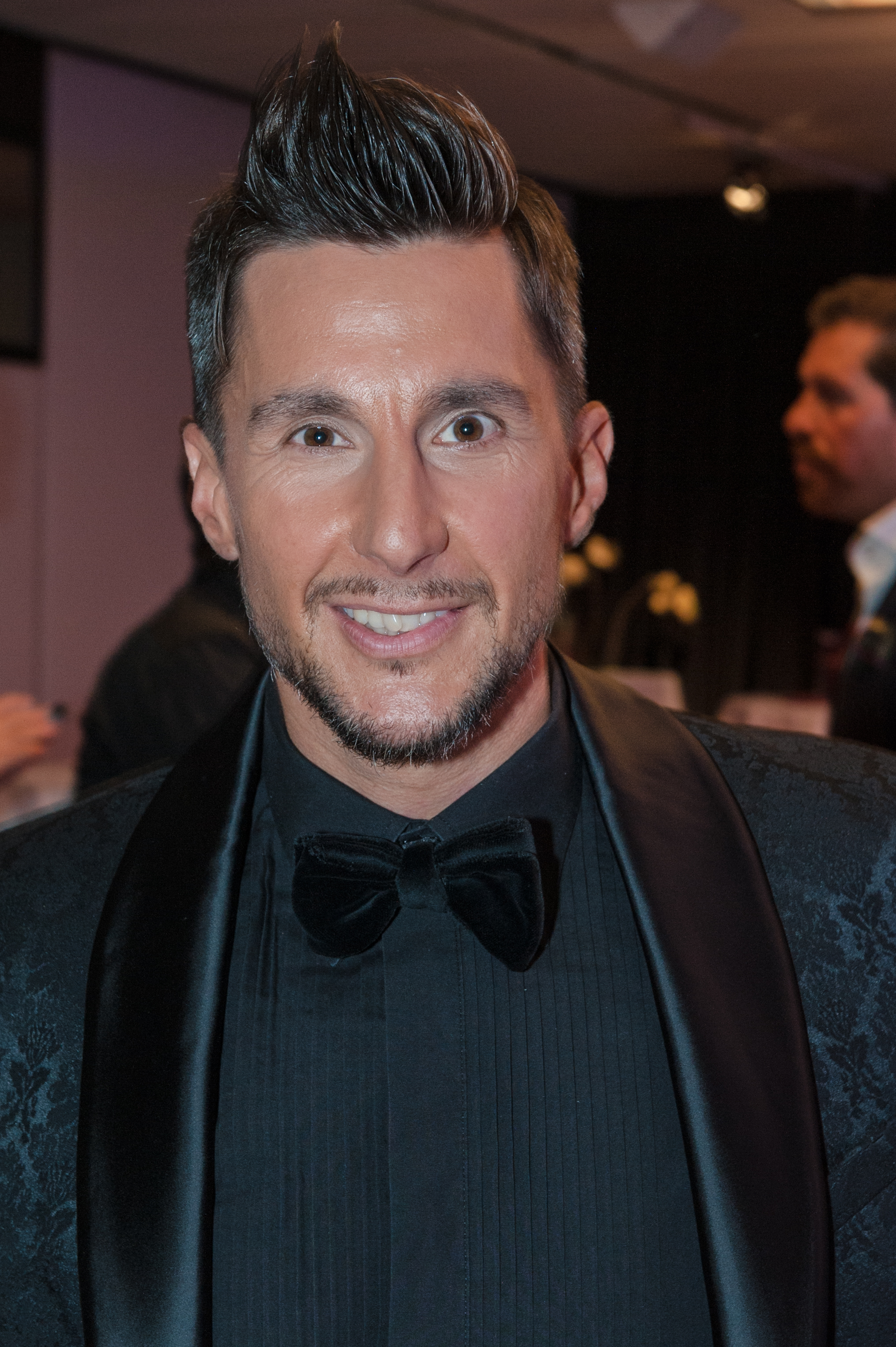 ORF Dancing Stars Opening 2016-03-04